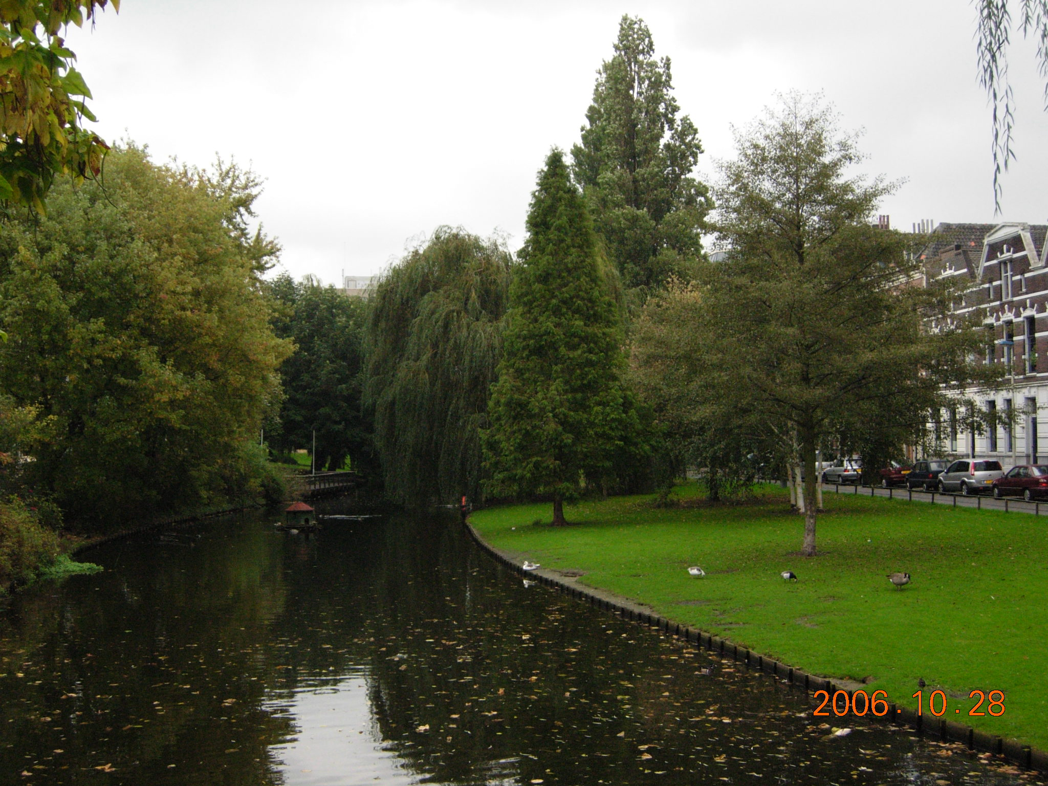 Rotterdam, Proveniersingel: garden behind the train station.